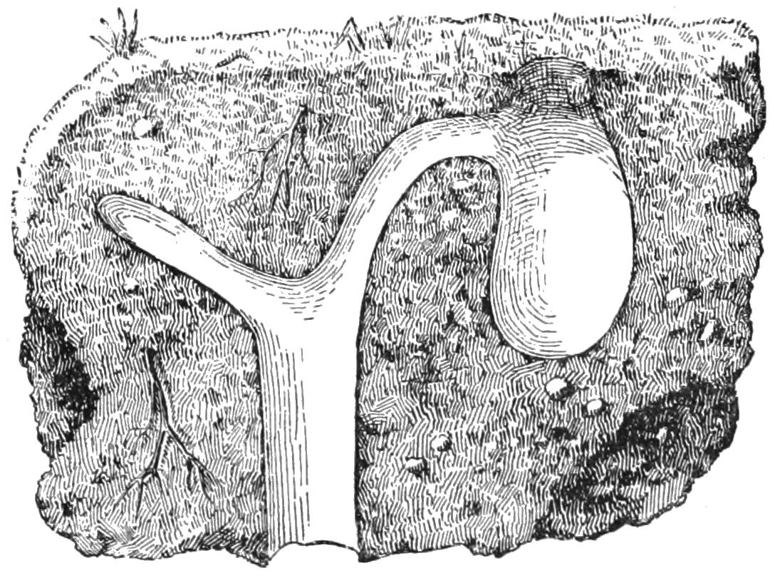 Burrow of spider Leptopelma cavicola (now Nemesia cavicola)